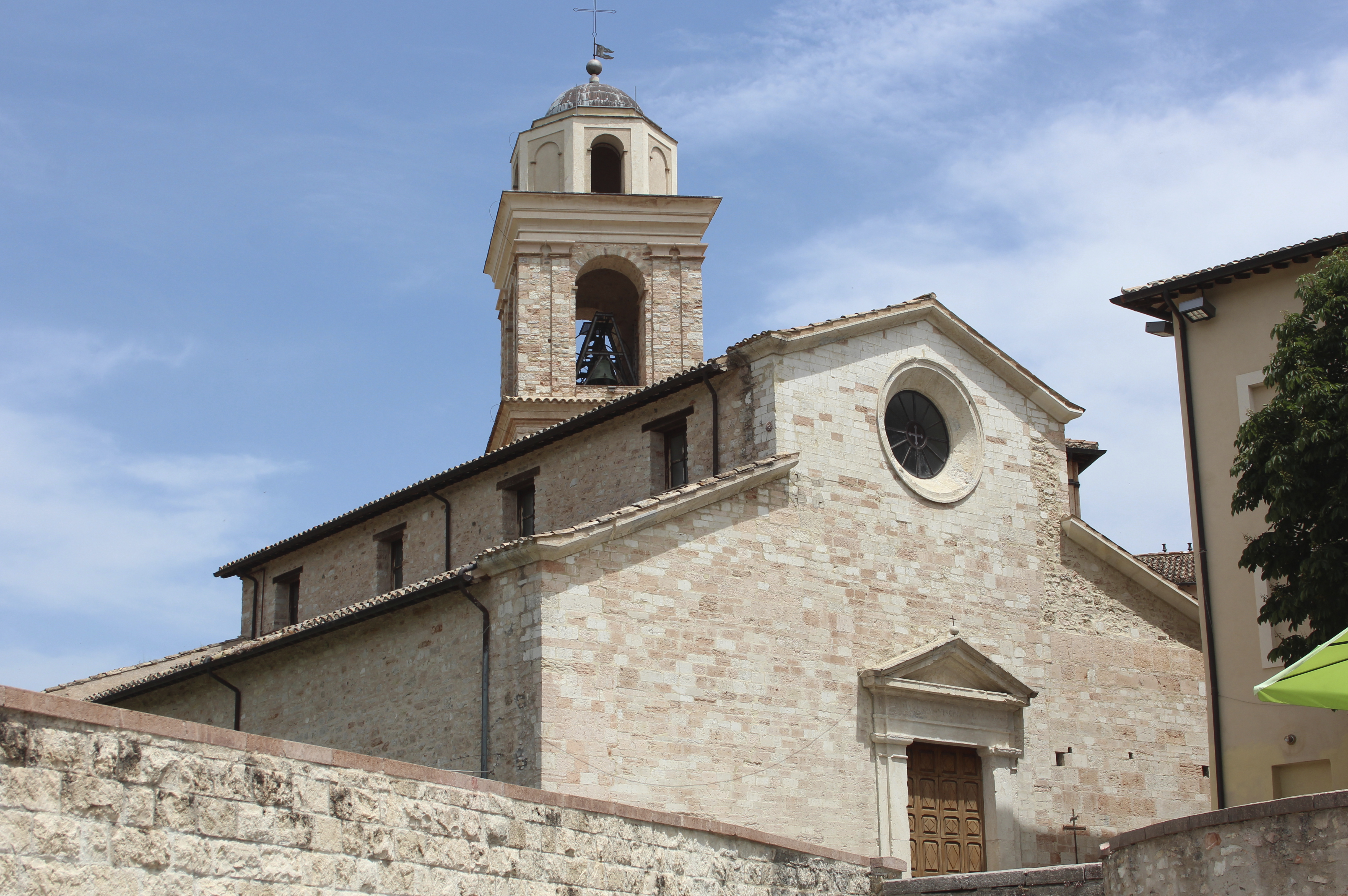 church Santa Maria Assunta, Sellano, Province of Perugia, Umbria, Italy